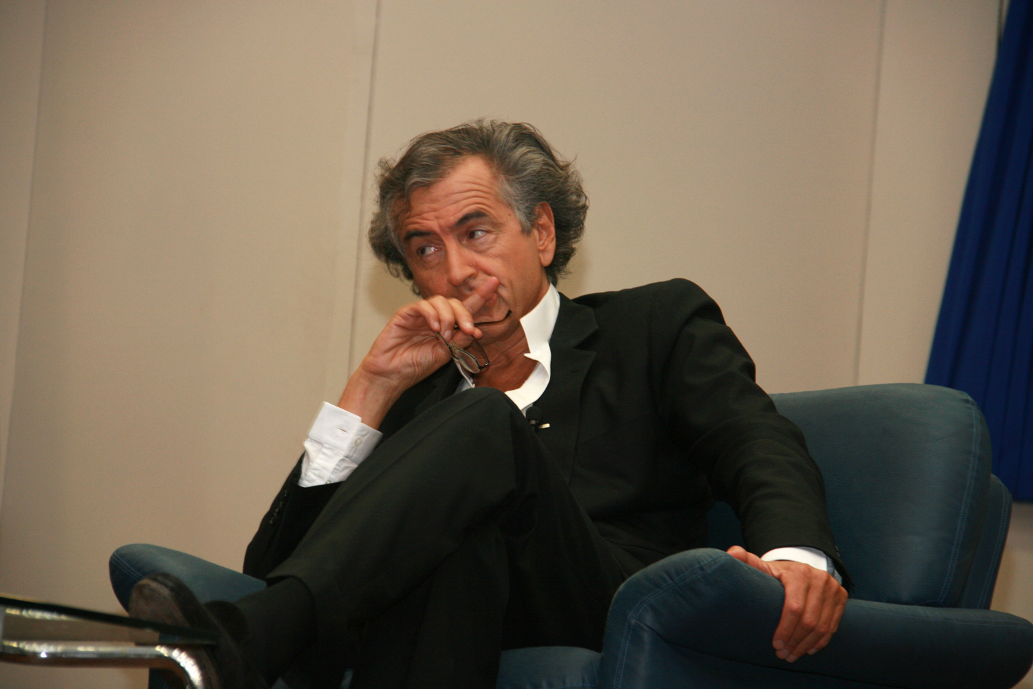 Bernard-Henri Lévy in der Universität Tel Aviv. Photo by Itzik Edri.